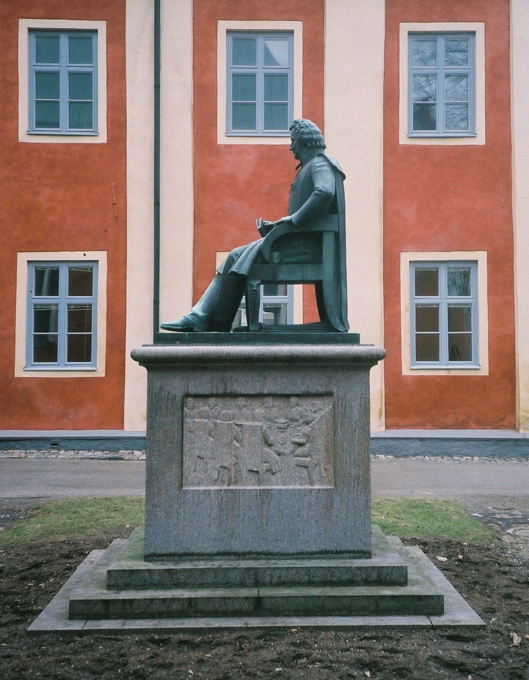 Statue of bishop, professor and poet Esaias Tegnér outside the building of the old cathedral school in Växjö, Sweden. The statue by artist Arvid Källström was inaugurated in 1926.